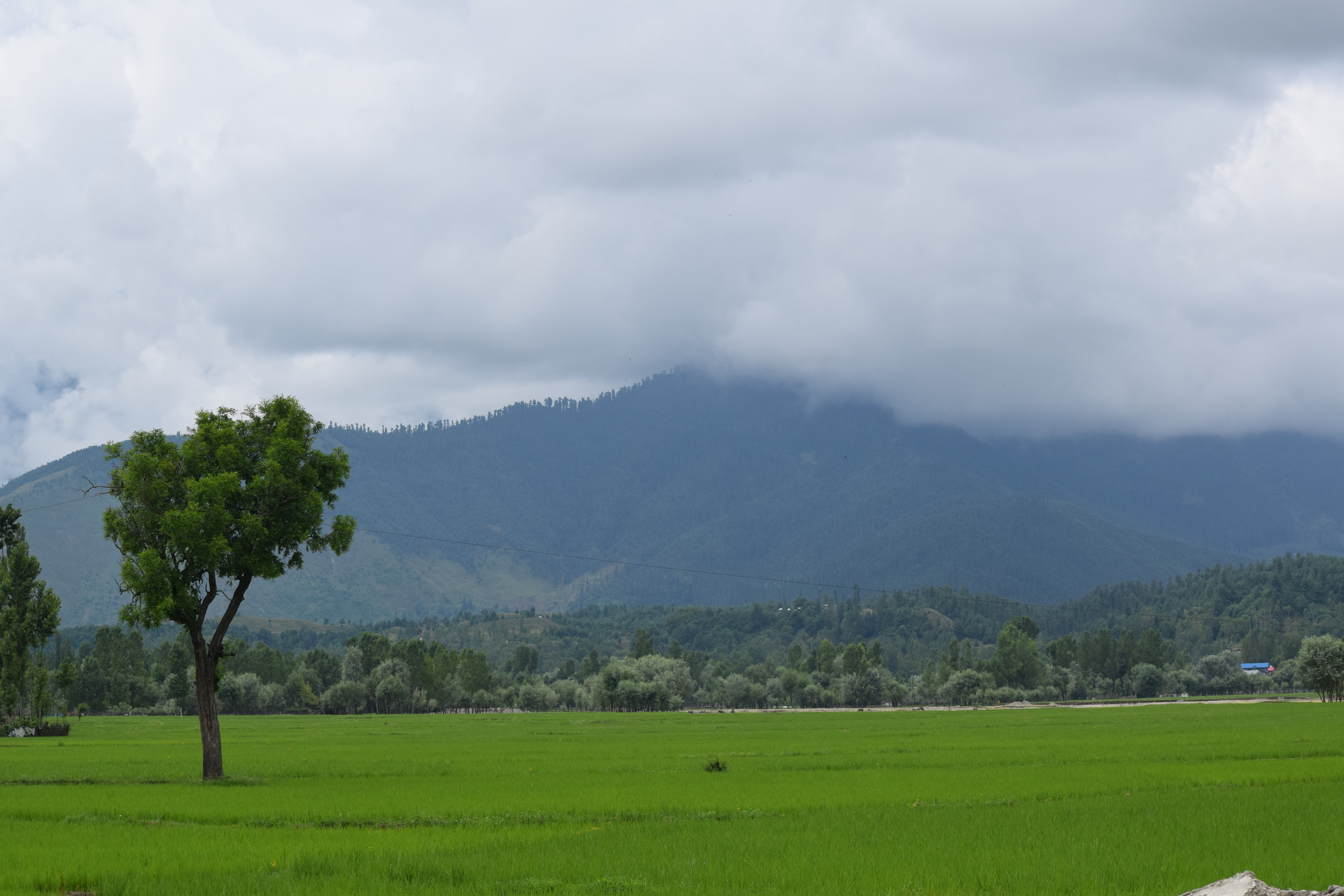 Image taken in Kupvara near Lolabvalley